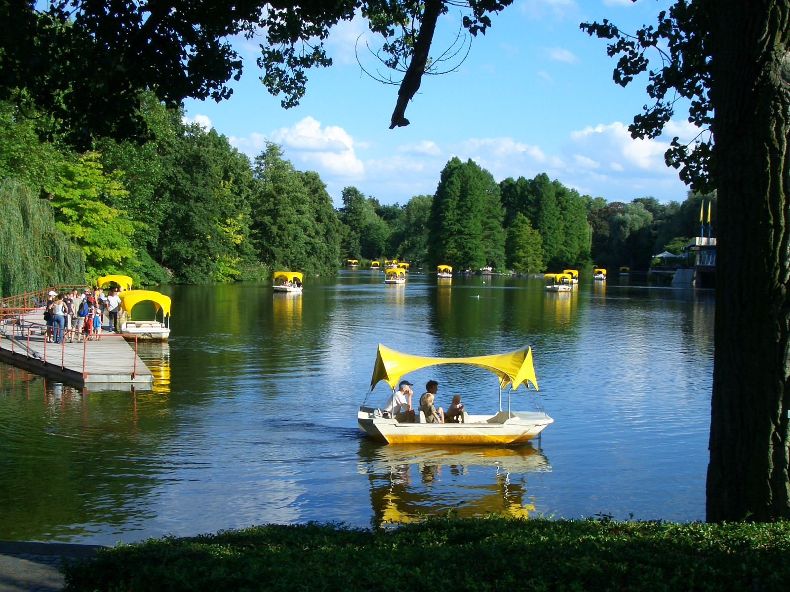 Gondolettas on Kutzerweiher at the Luisenpark in Mannheim